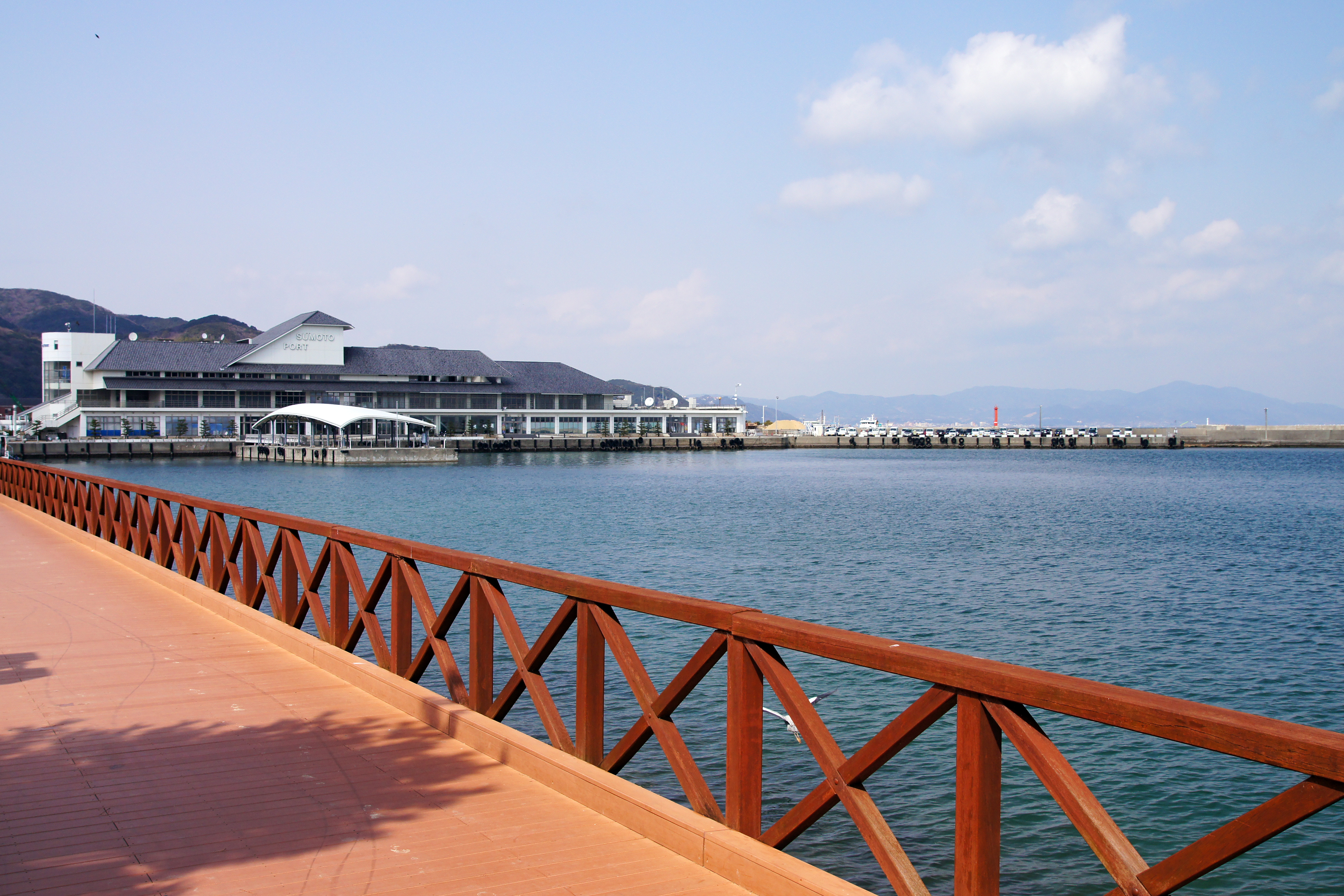 Sumoto Port in Sumoto, Hyogo prefecture, Japan.